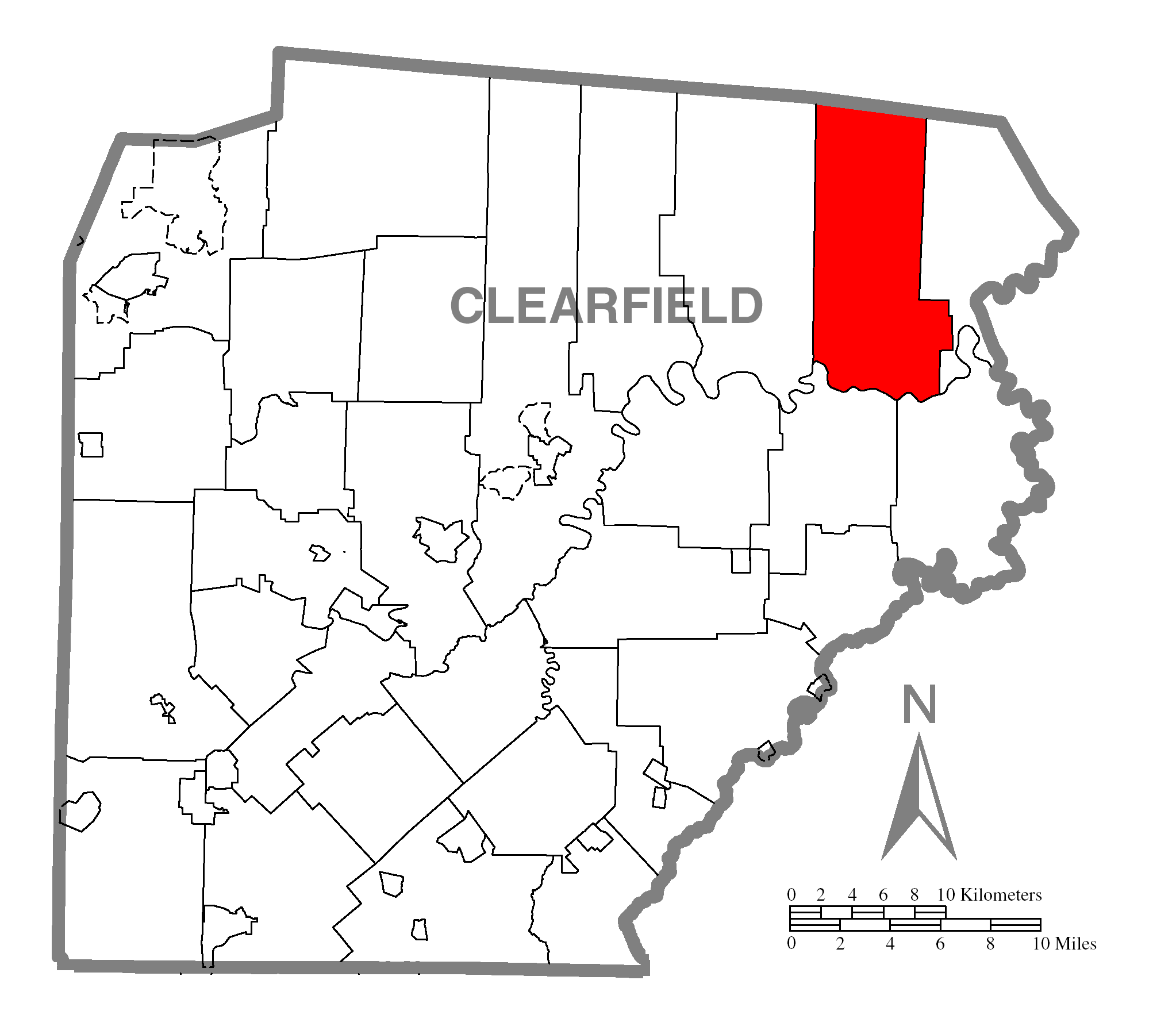 A map of Clearfield County showing Covington Township, Pennsylvania (alternate) highlighted on the map.